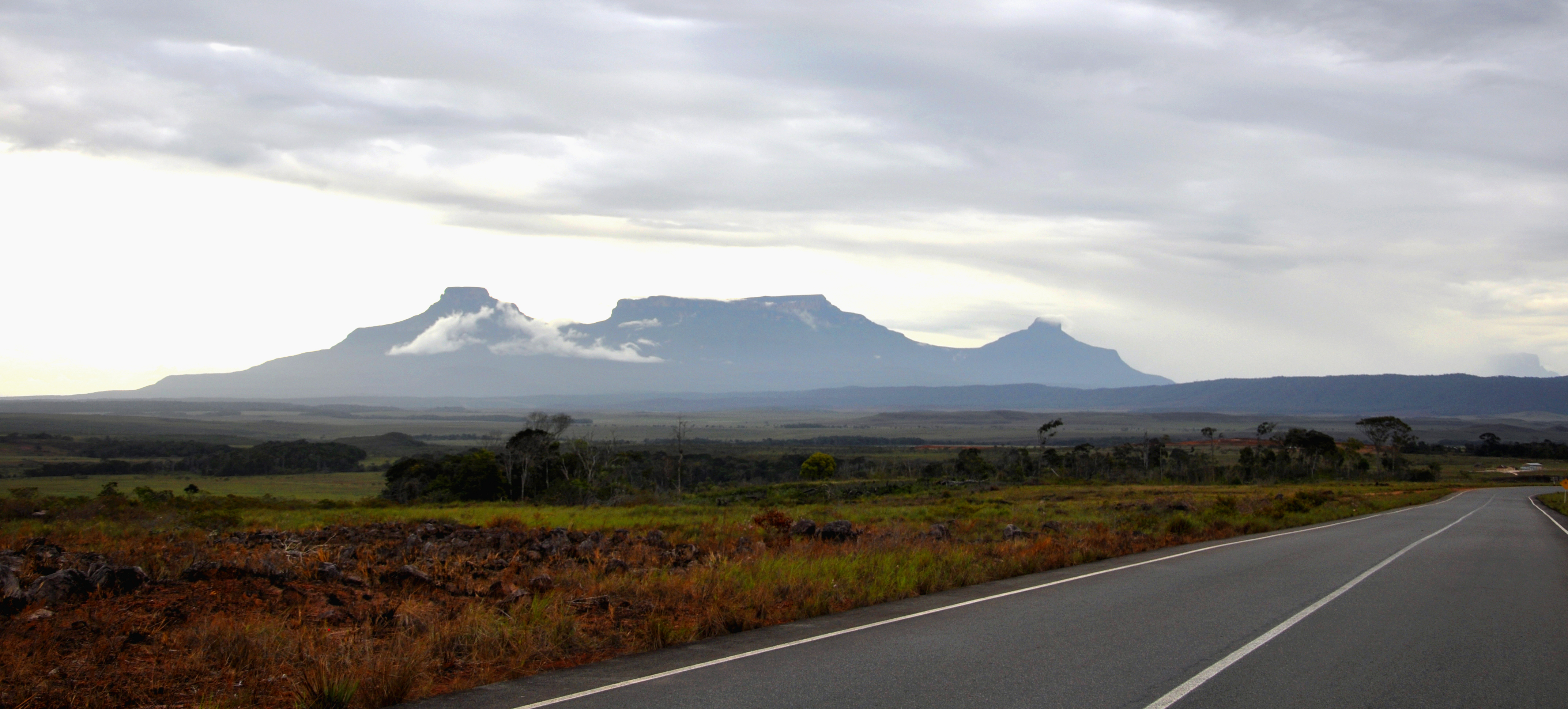 The three first visible tepuis of the Eastern Chain, in Gran Sabana, Venezuela. Tepuys that appear in order from left to right are Ilú or Ürü, Tramén and Karaurin